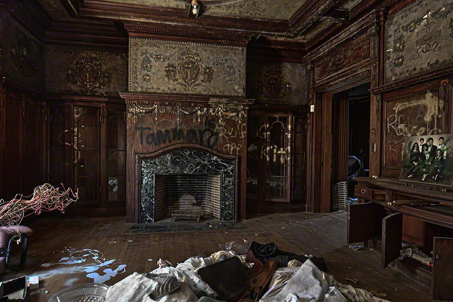 Image of the house at 13 Mansion Road known as The Charles Winship House